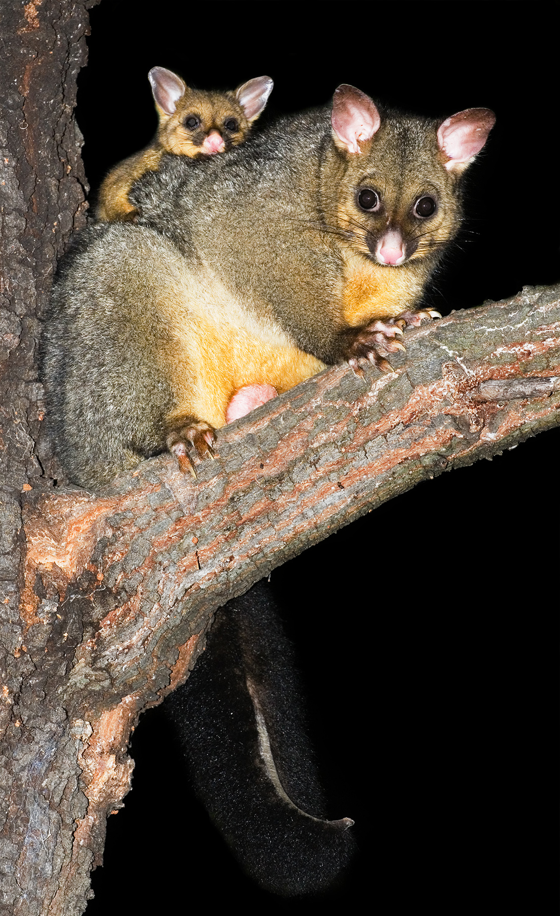 Common Brushtail Possum, Austin's Ferry, Tasmania, Australia